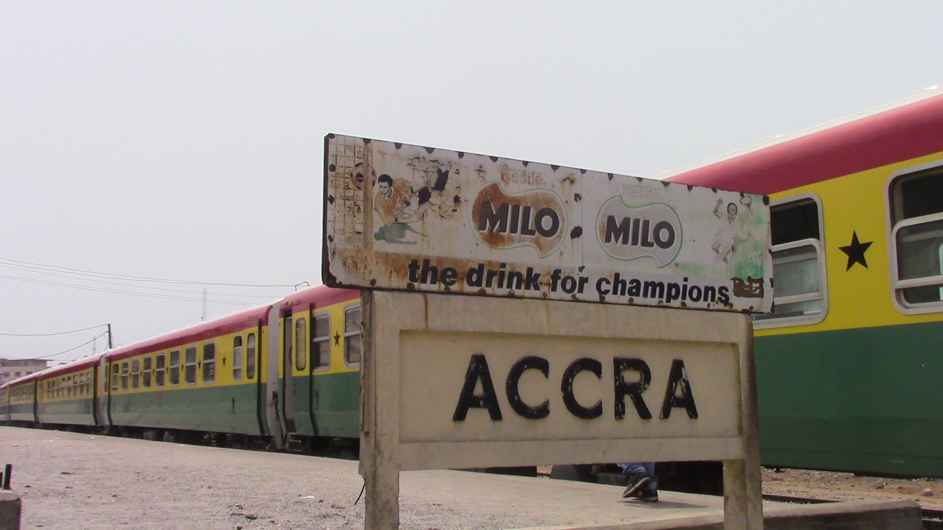 A train parked at the Accra train station